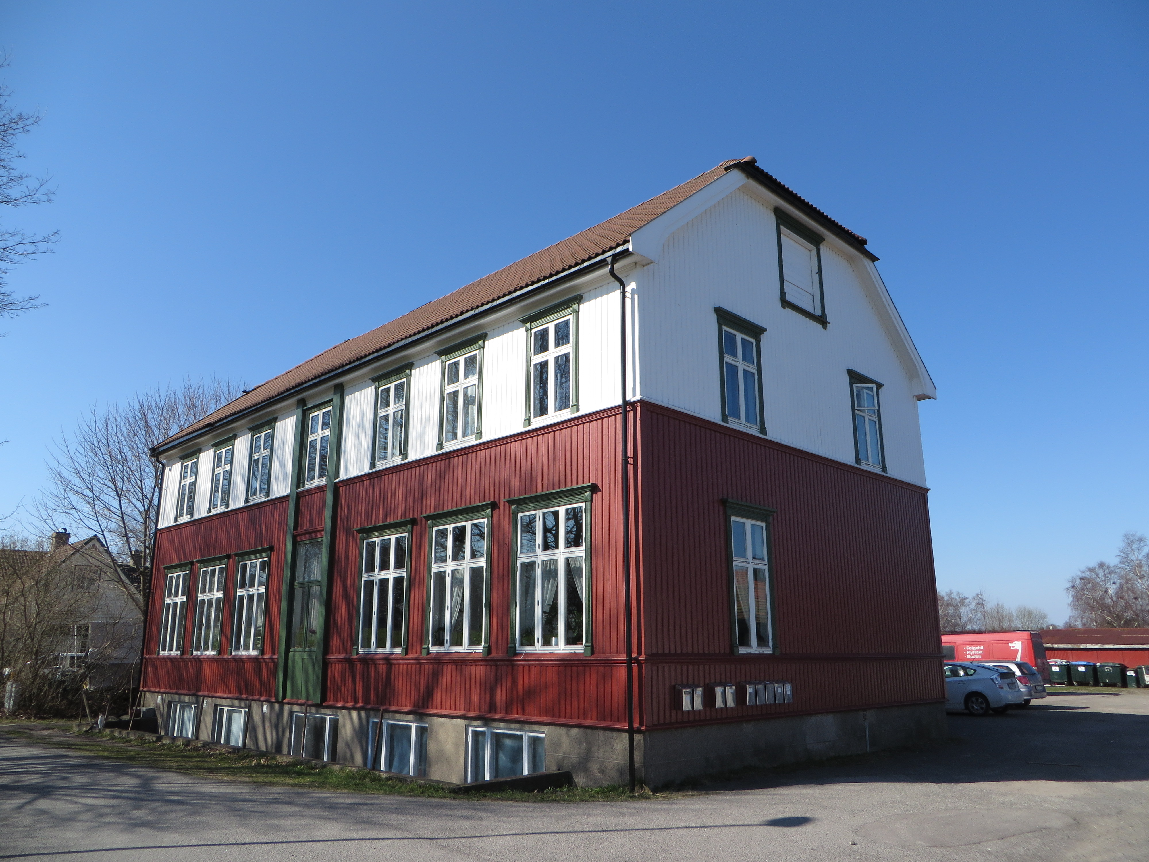 This red and white painted building was originally built and functioned as a primary school, known as Vallø Skole, from 1915-1942 before being turned into a housing complex which it still is today. It survived the British bombing raid at the end of World War II which left much of the Vallø community in ruins and 53 civilian dead.